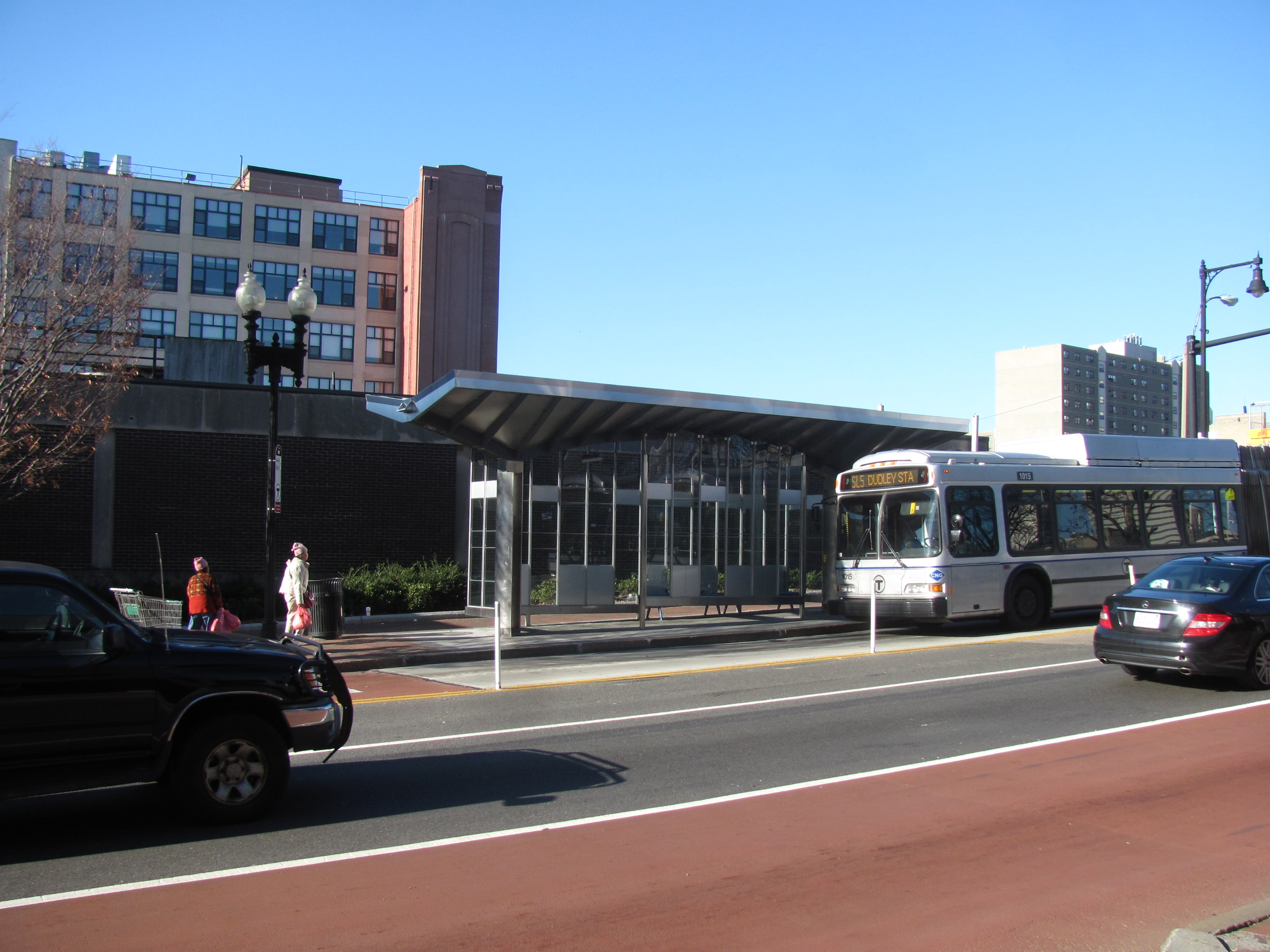 An outbound bus at Herald Street station in December 2011